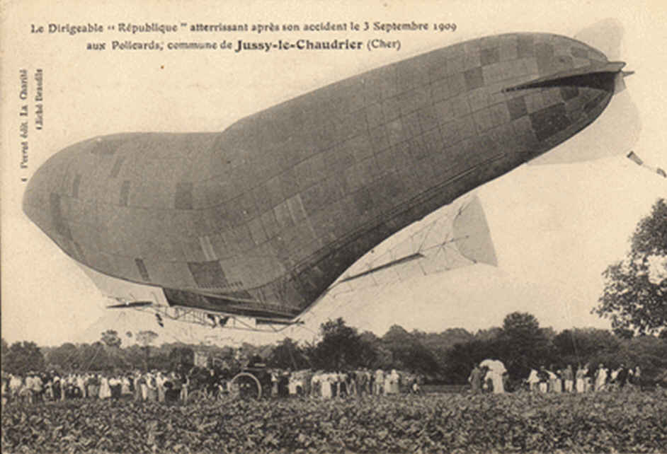 A damaged République sags under the weight of the keel and gondola after engine damage forced an unplanned landing, which caused a loss of hydrogen from the gas-bag. The keel is bent.